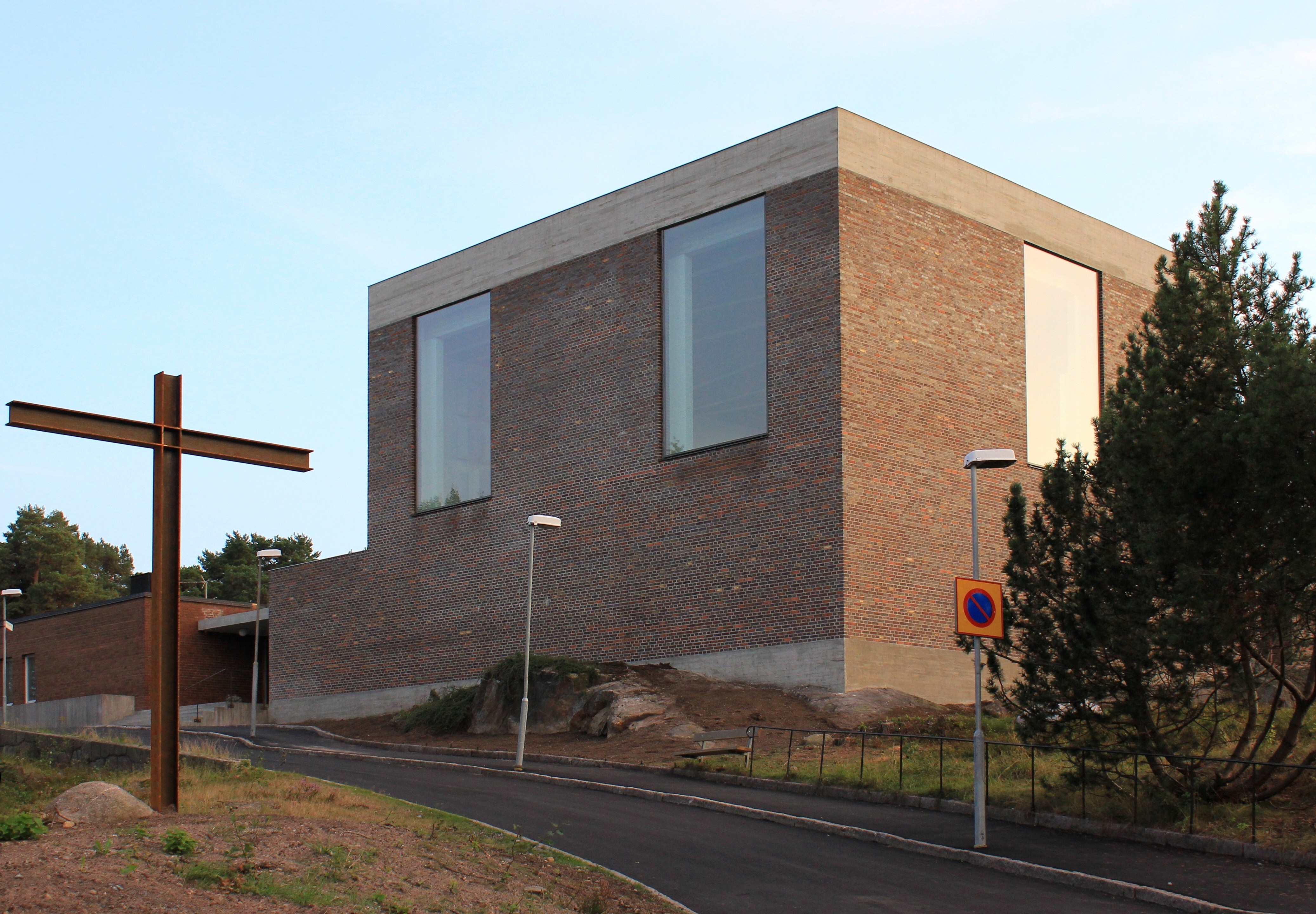 Årsta kyrka in Stockholm municipality.